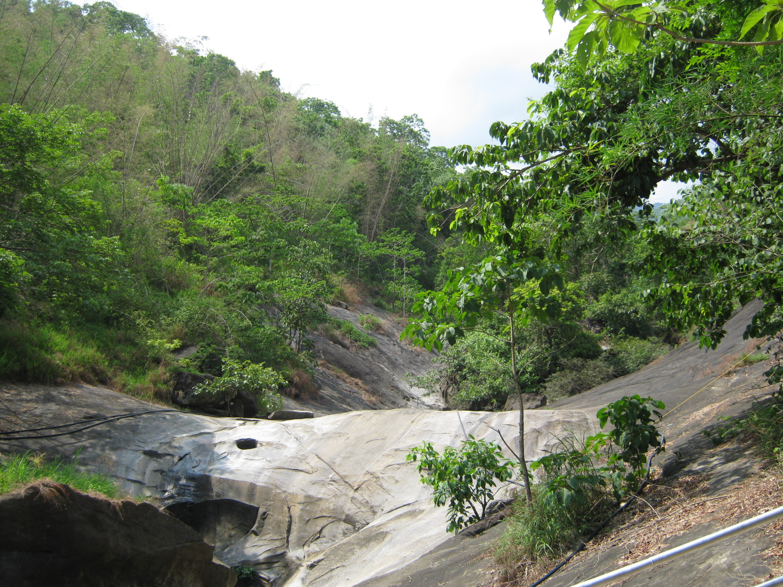 Rock in Kakkavayal